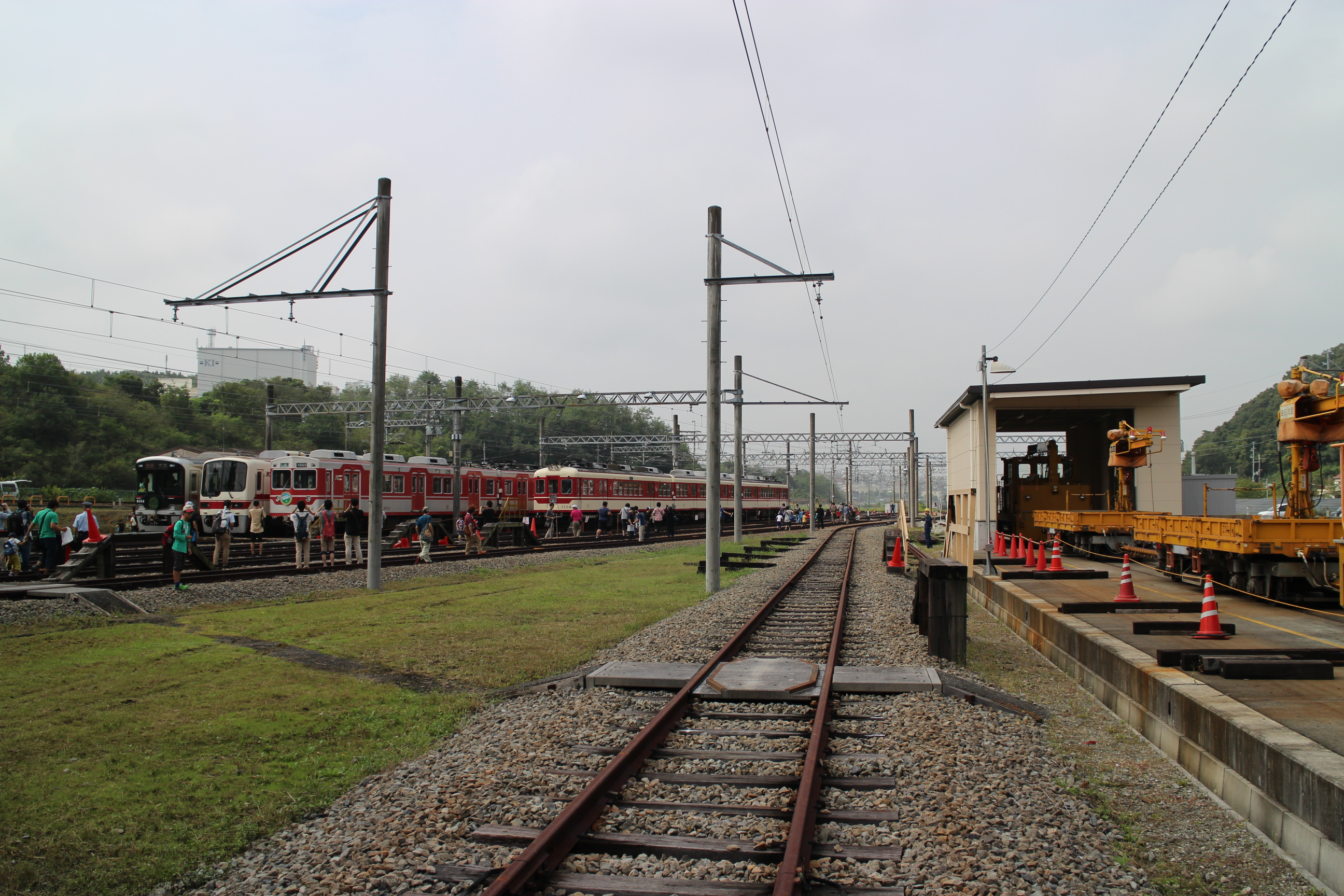 Mizu Depot open day